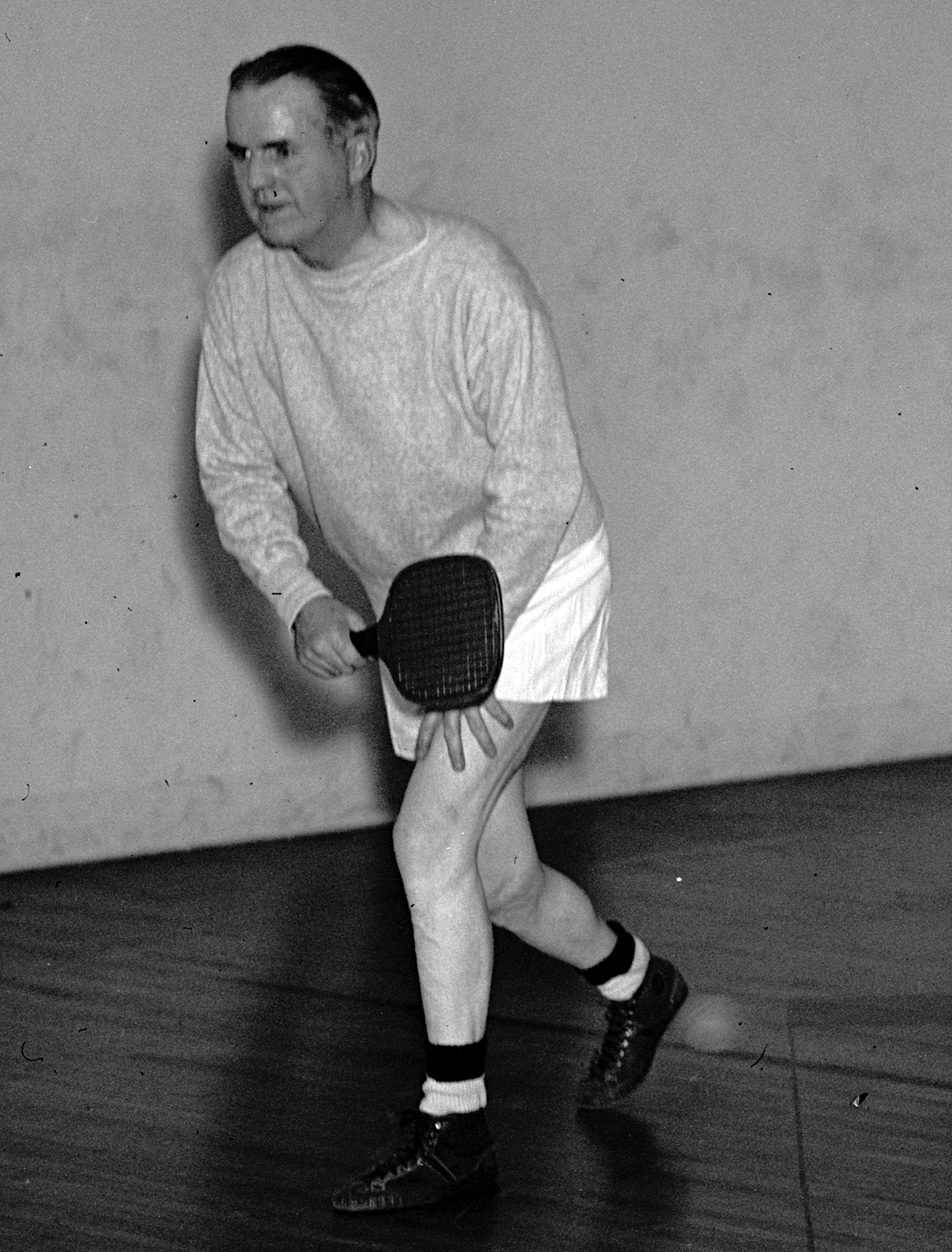 Emmet O'Neal, US Representative from Kentucky, during an exercise of paddleball in the House Gym